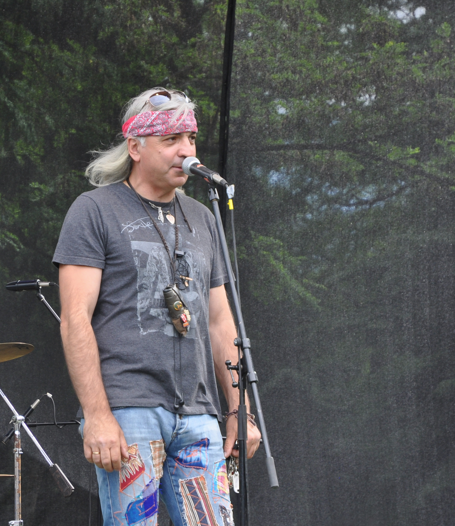 Vasil Georgiev, better known as Vasko Krapkata (Vasko the Patch), at "Flower for Gosho Fest" 2011, South park, Sofia.